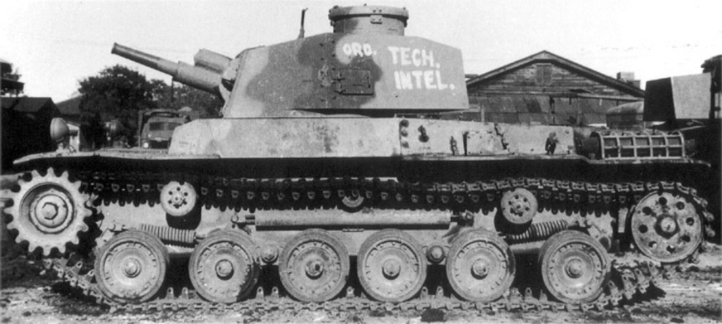 Imperial Japanese Army Type 2 gun tank Ho-I.